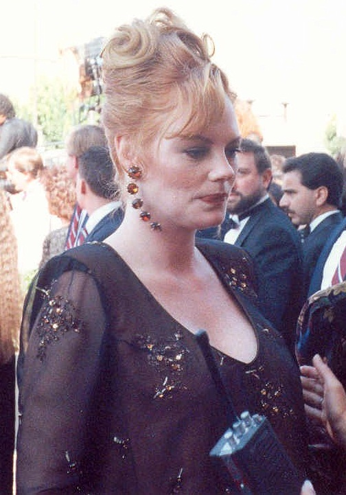 Marg Helgenberger on the red carpet at the 1990 Emmy Awards 9/16/90. At that time, Marg was pregnant with her son Hugh Howard Rosenberg